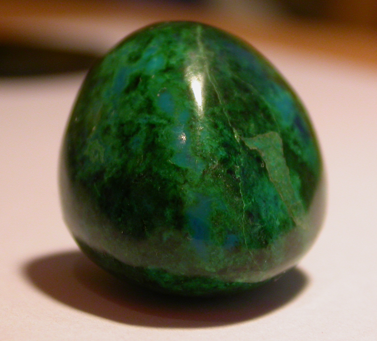 Chrysocolla - tumble polished stone